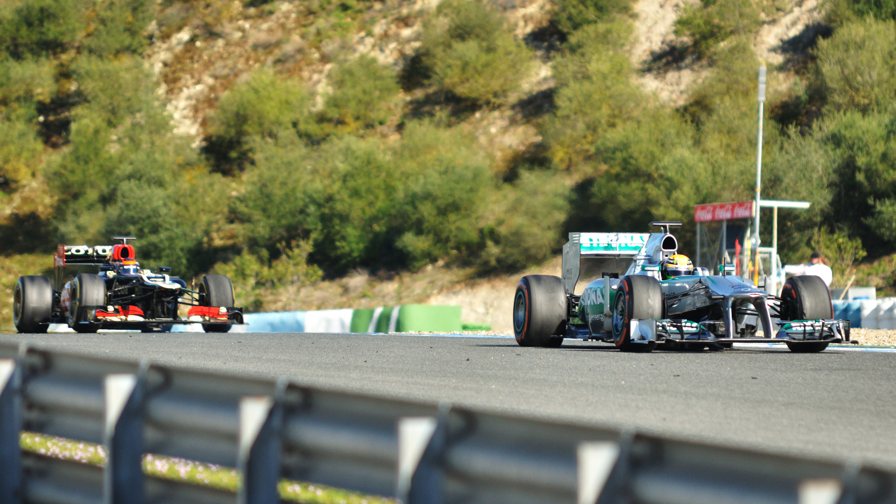 Lewis Hamilton appearing in the Mercedes AMG F1W04 is followed by the Lotus E21 of Kimi Raikkonen on day four of testing at Circuito de Jerez.